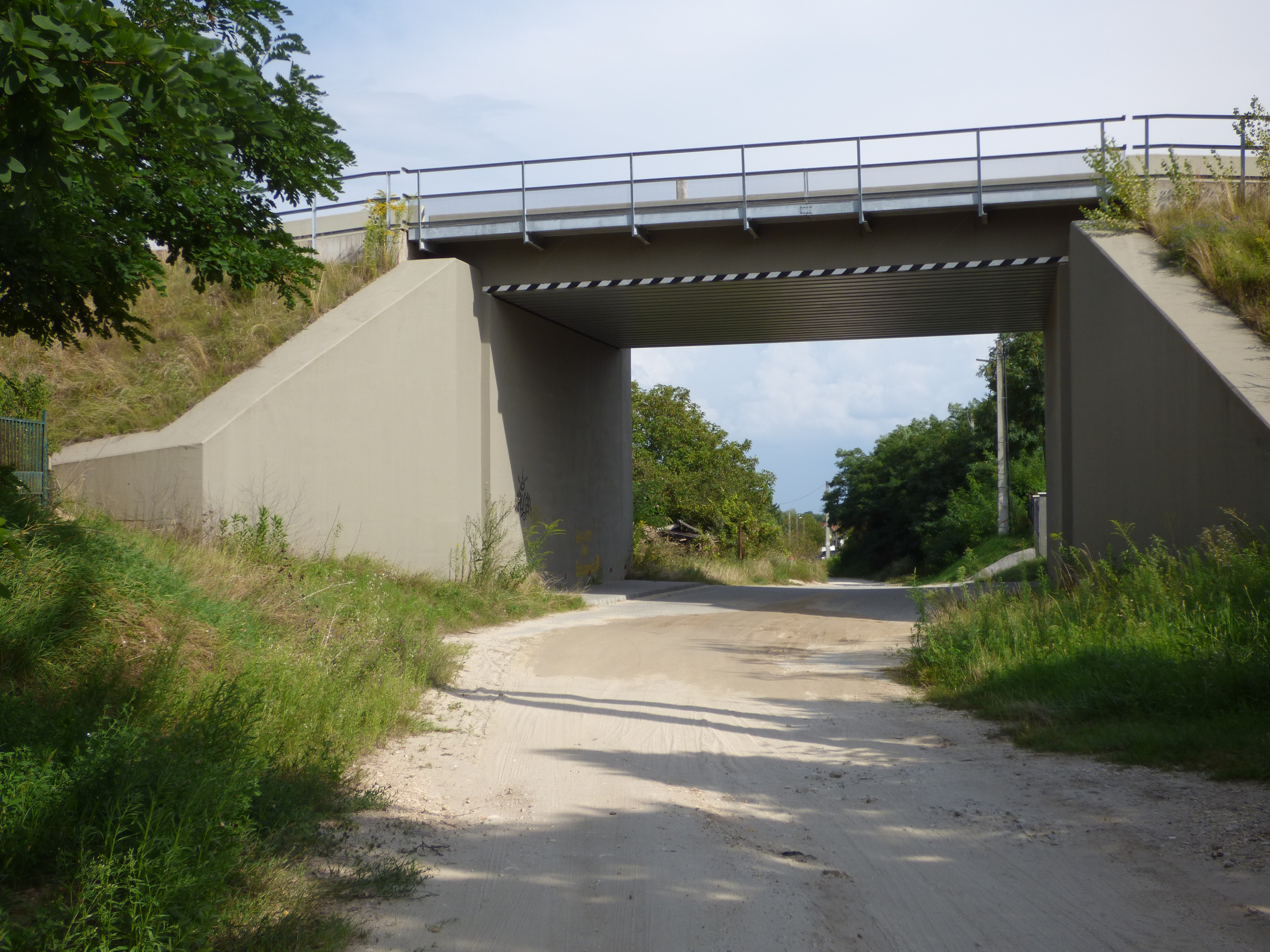 A dolomitvasút nagyvasúti alagútja helyén épült vasúti híd